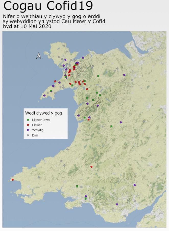 This "Citizen Science" map reveals cuckoo 'hotspots' and areas of 'no cuckoos' in Wales under the unique conditions of the Covid19 'lockdown' up to 10 May 2020. Obvious hotspots appear in the inhabited uplands between Y Bala and Dolgellau, while the cuckoo appears largely absent from lowland Anglesey and Lleyn, at least. The advantage of the map is that it distinguishes between 'no cuckoos' (category 0) and 'no records' (no points registered). No records could be obtained from the highest uninhabited uplands.